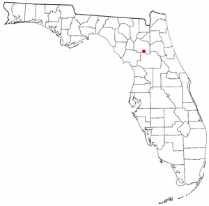 19:30, 23 September 2004 Seth Ilys 300x295 (12180 bytes) ( GFDL|migration=relicense )